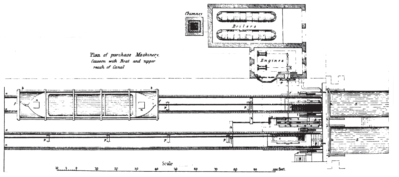 Plan of the machinery at the upper end of the Blackhill Incline on the Monkland Canal, Scotland